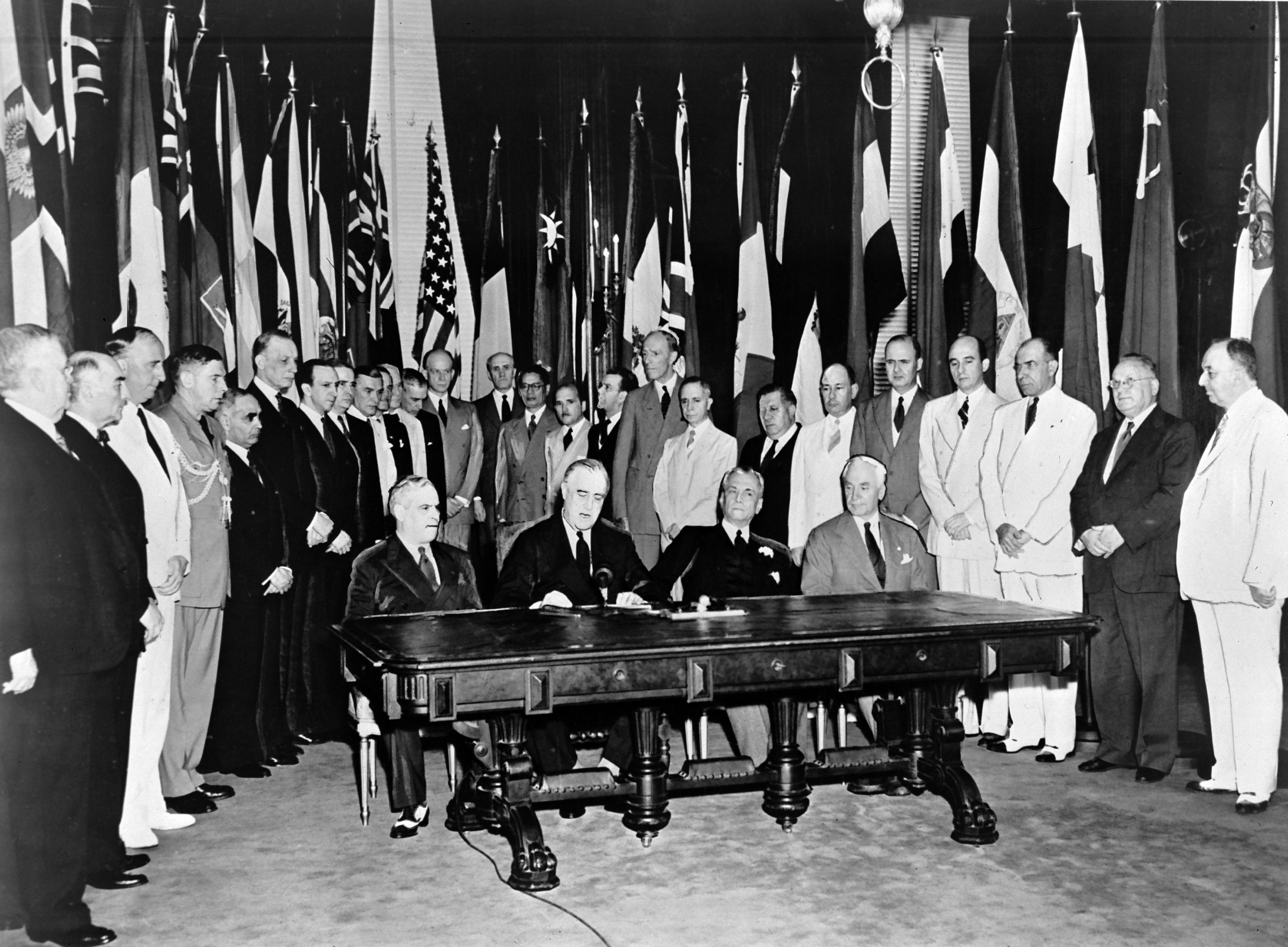 On 1 January 1942, representatives of 26 Allied nations fighting against the Axis Powers met in Washington, D.C. to pledge their support for the Atlantic Charter by signing the "Declaration by United Nations". This document contained the first official use of the term "United Nations", which was suggested by United States President Franklin Delano Roosevelt (seated, second from left).